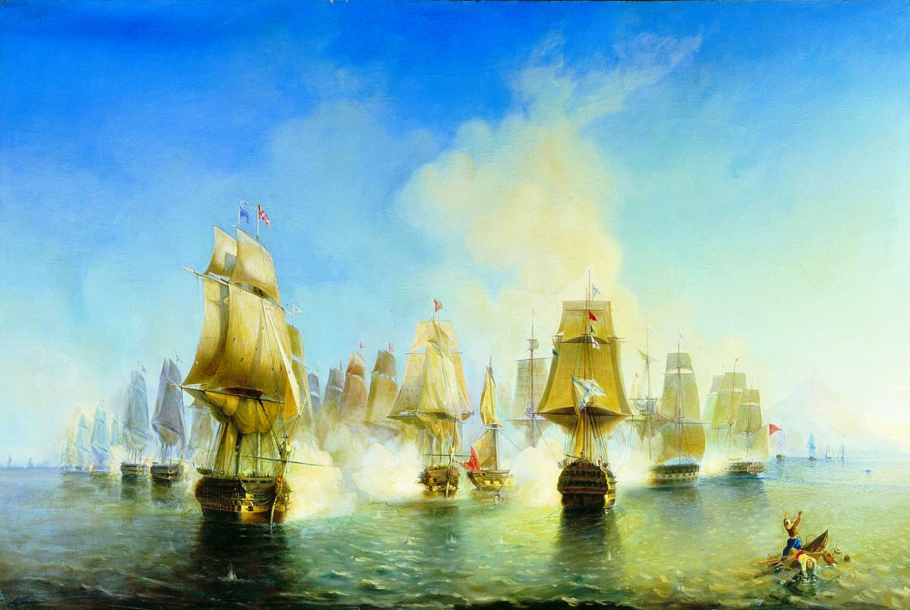 This picture was made in 1853. Picture illustrate the main navy battle of Russo-Turkish war 1806-1812 - Battle of Athos.